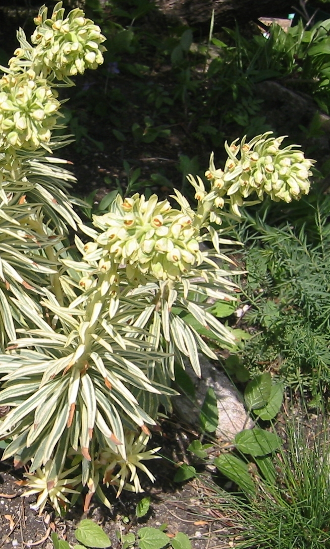 Euphorbia characias 'EmmerGreen'; Botanic Garden, Vienna, Austria.